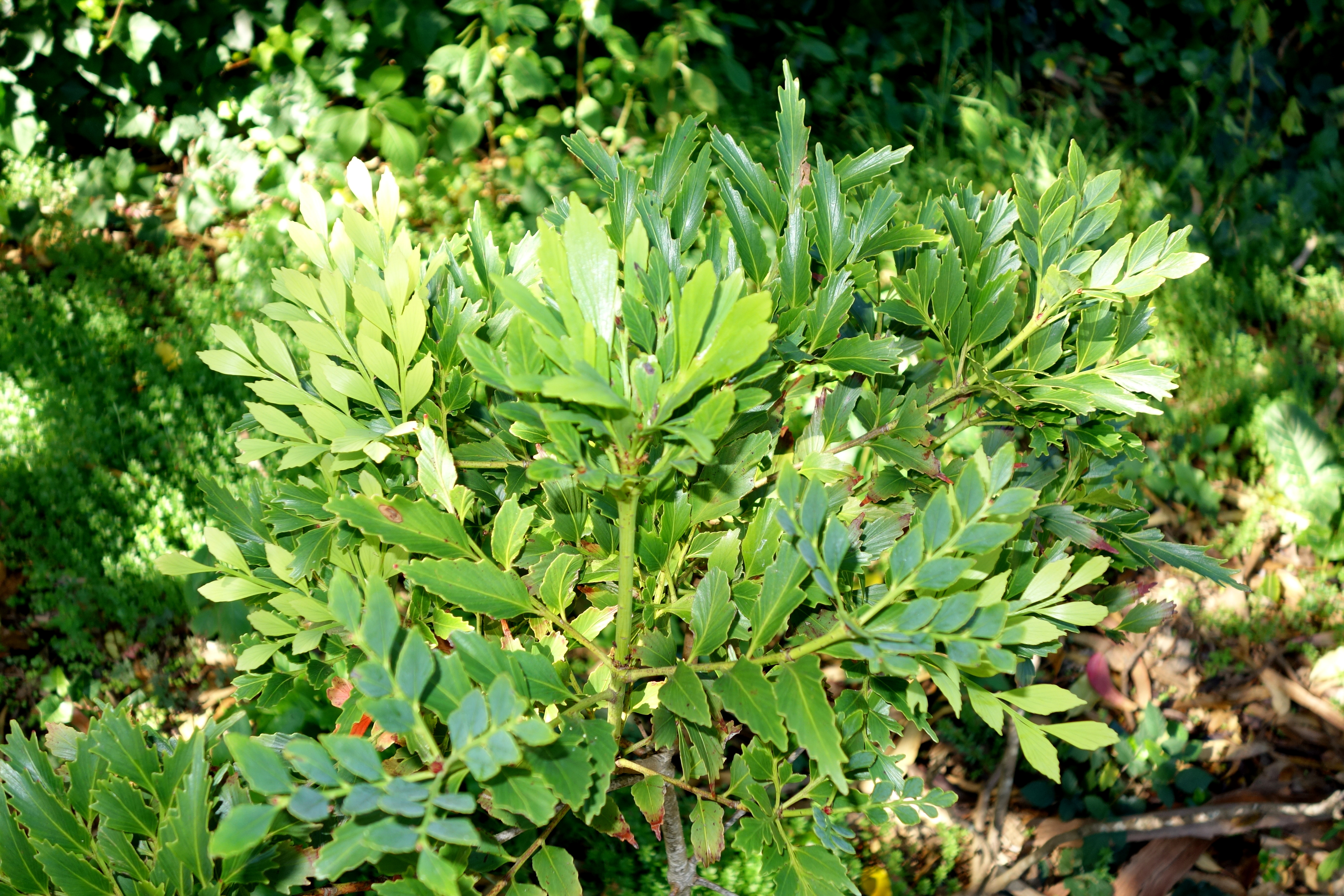 Botanical specimen in the San Francisco Botanical Garden, San Francisco, California, USA.